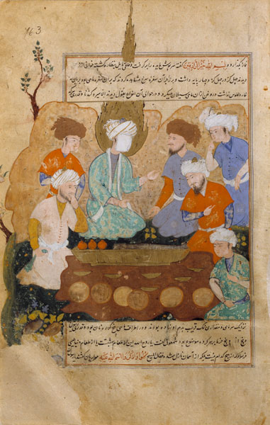 Isa (Jesus) bringing down heavenly food for his disciples (Quran 5:111-115) [cf. John, ch. 6])